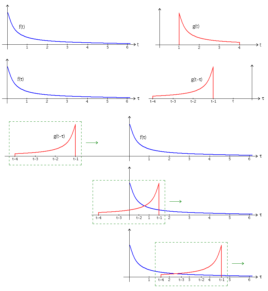 Author/Source: E. Mote